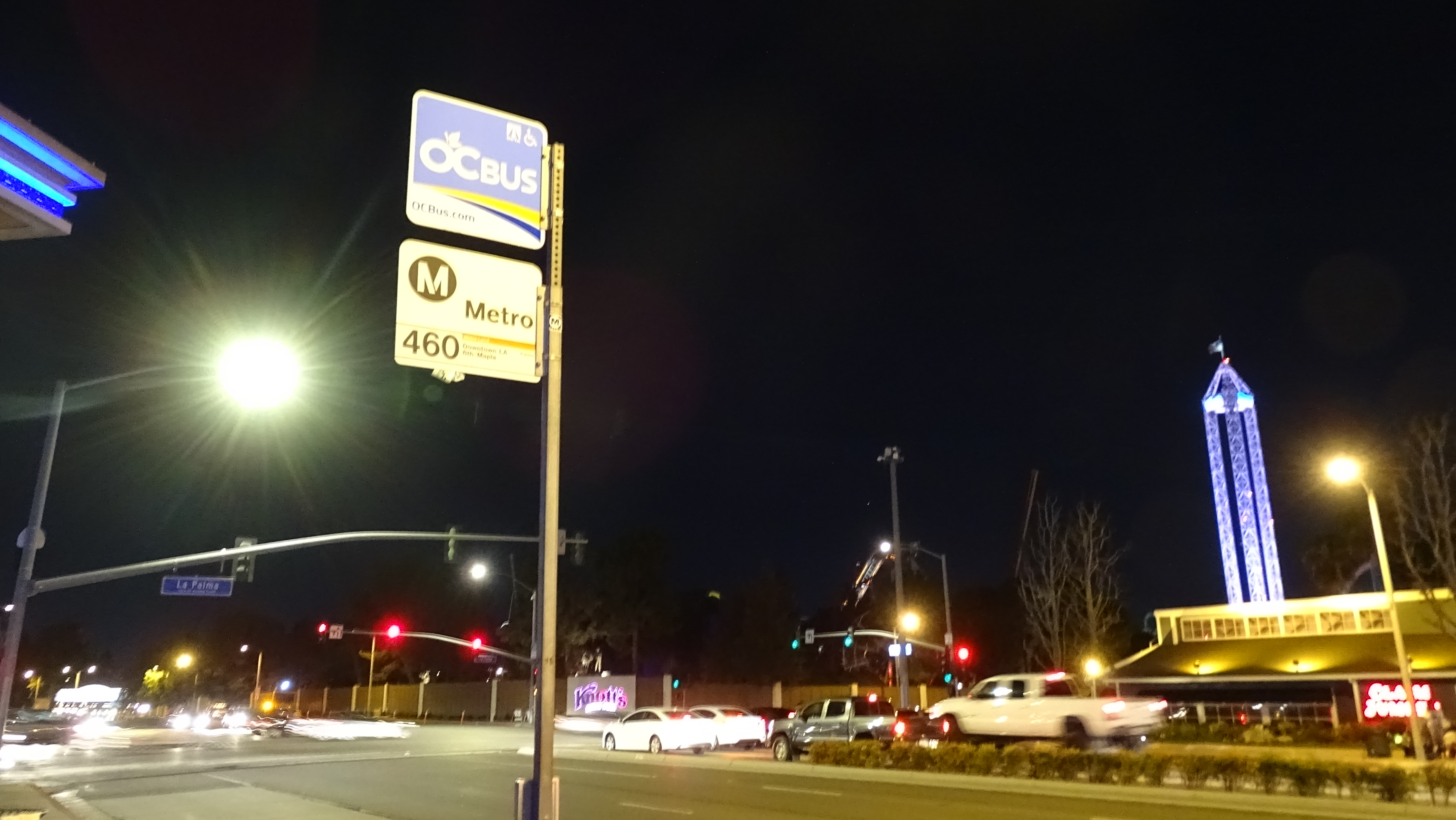 Metro Express Line 460 at Knotts Berry Farm